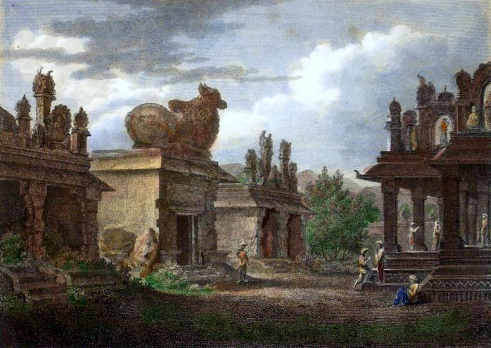 Temples at Calicut by by Mr. Henry Salt (1809)